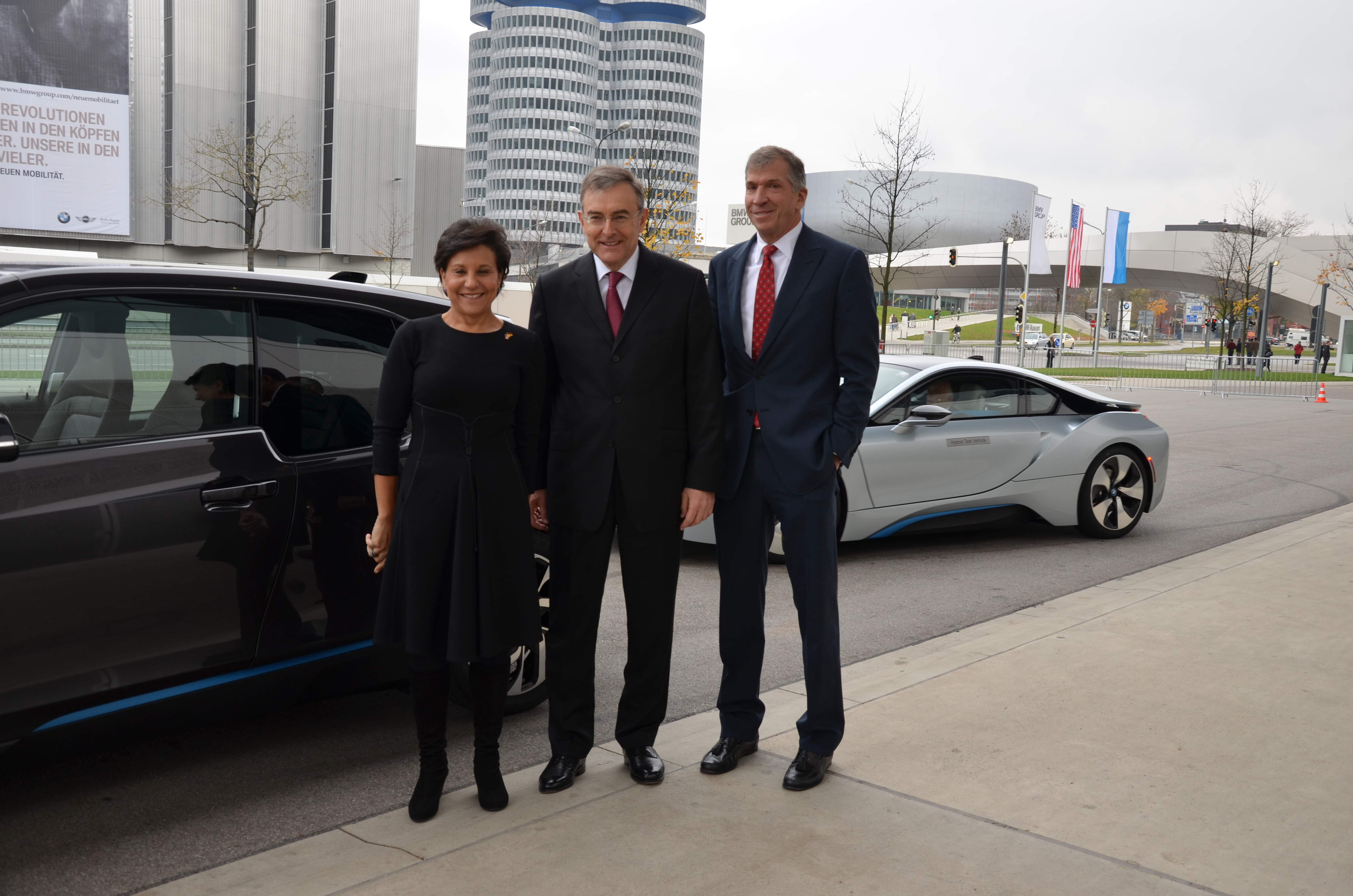 Secretary of Commerce Penny Pritzker visits Munich